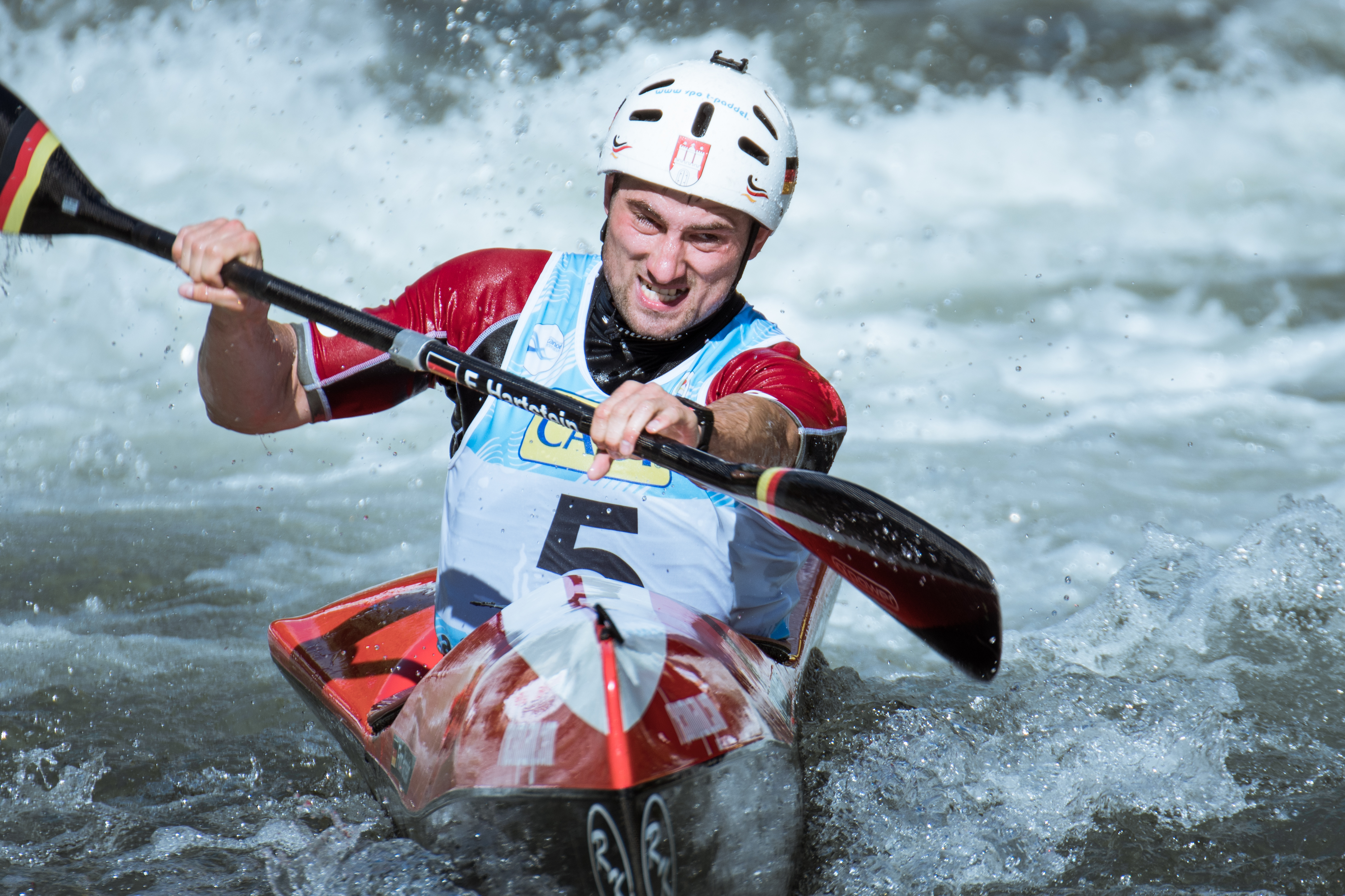 Finn Hartstein during the 2019 Canoe Wildwater World Championships in La Seu d'Urgell, Spain.